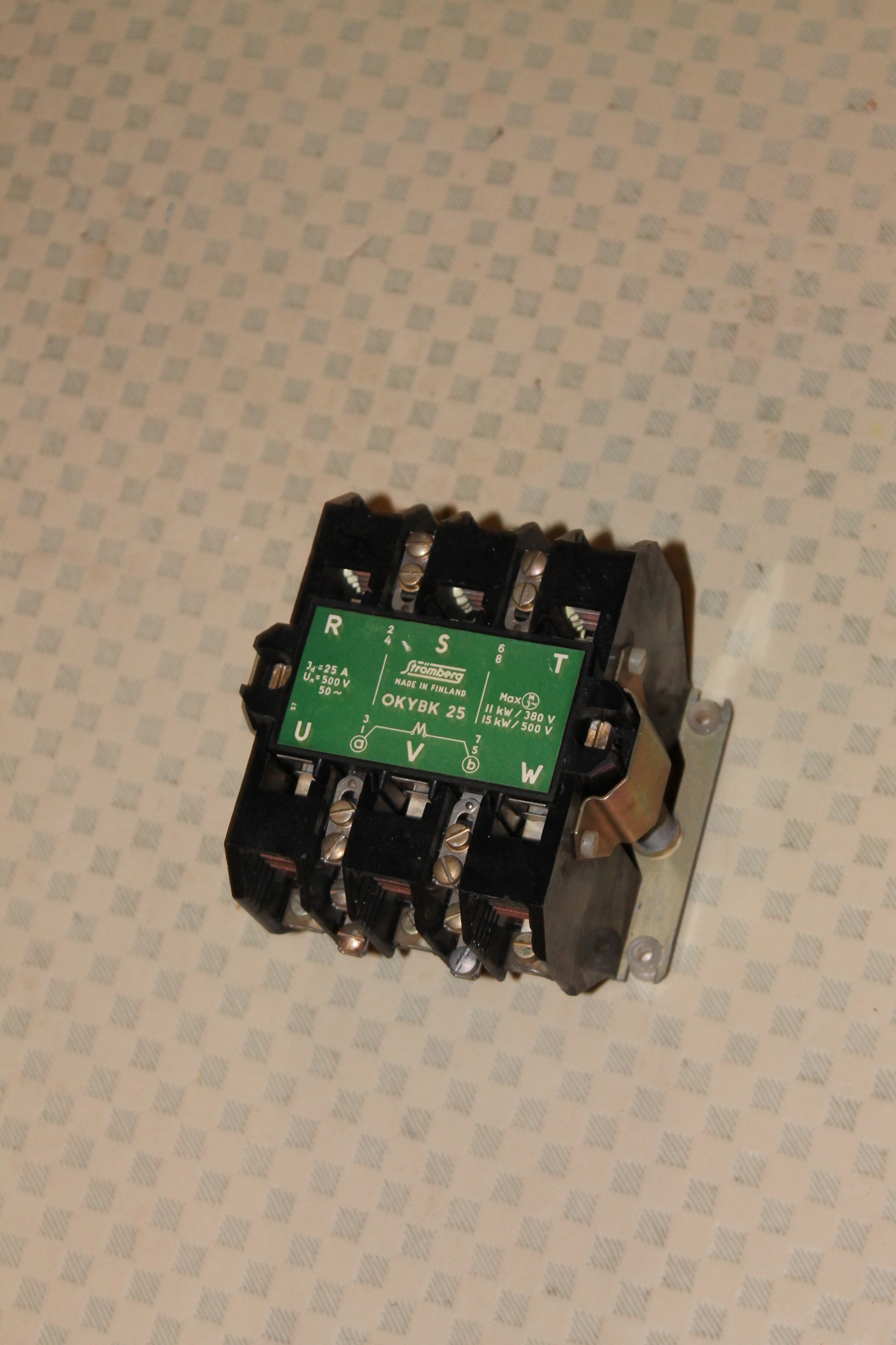 3-phase high current contactor